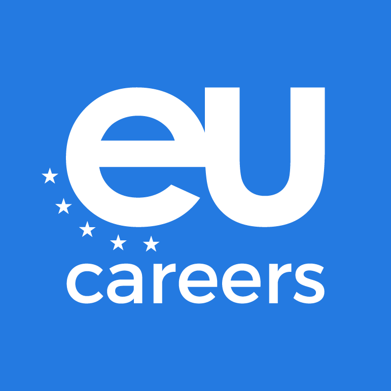 EU Careers Logo